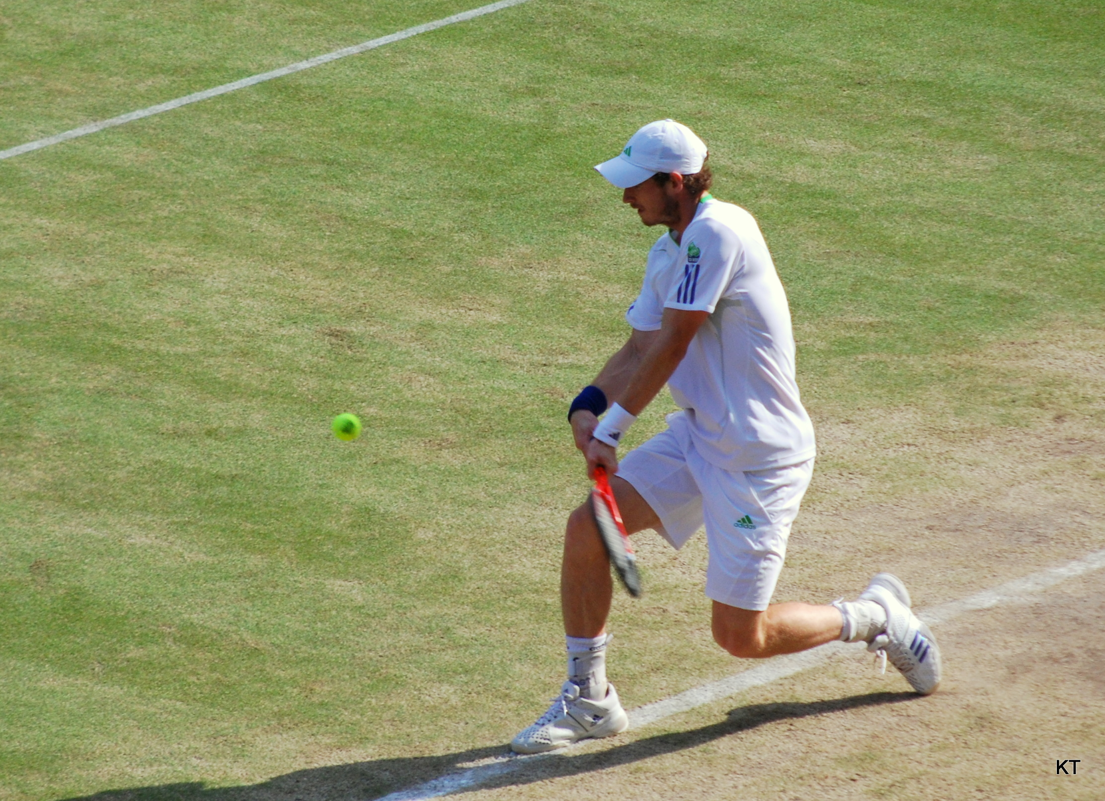 Andy Murray during his semi-final with Rafael Nadal. Nadal won 5-7, 6-2, 6-2, 6-4. Day 11 of Wimbledon 2011.